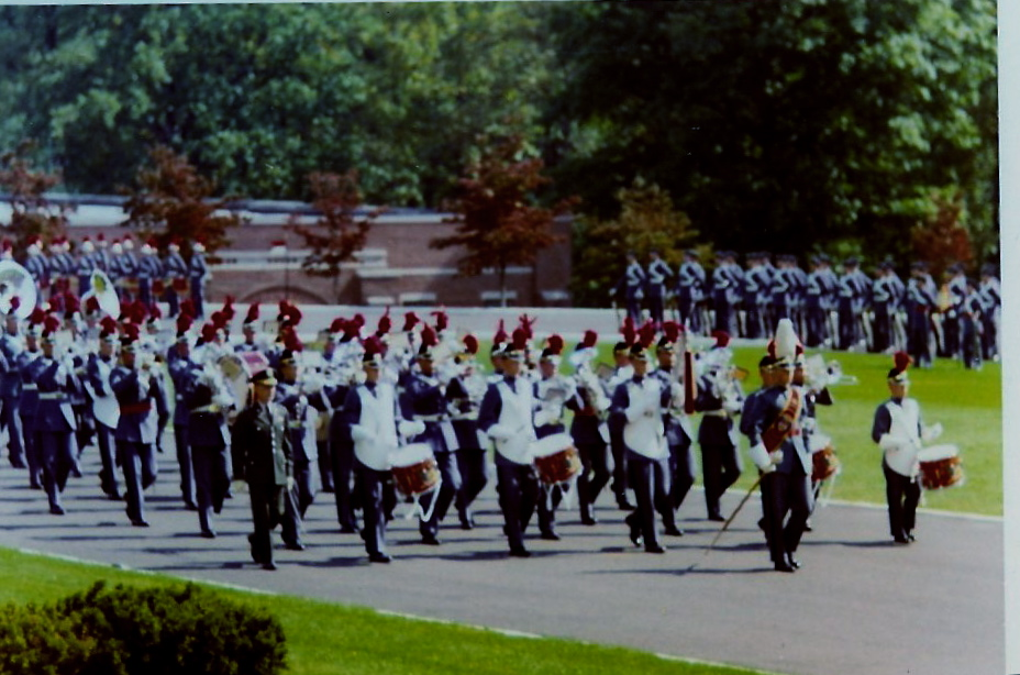 Valley Forge Military Academy Band during Parade